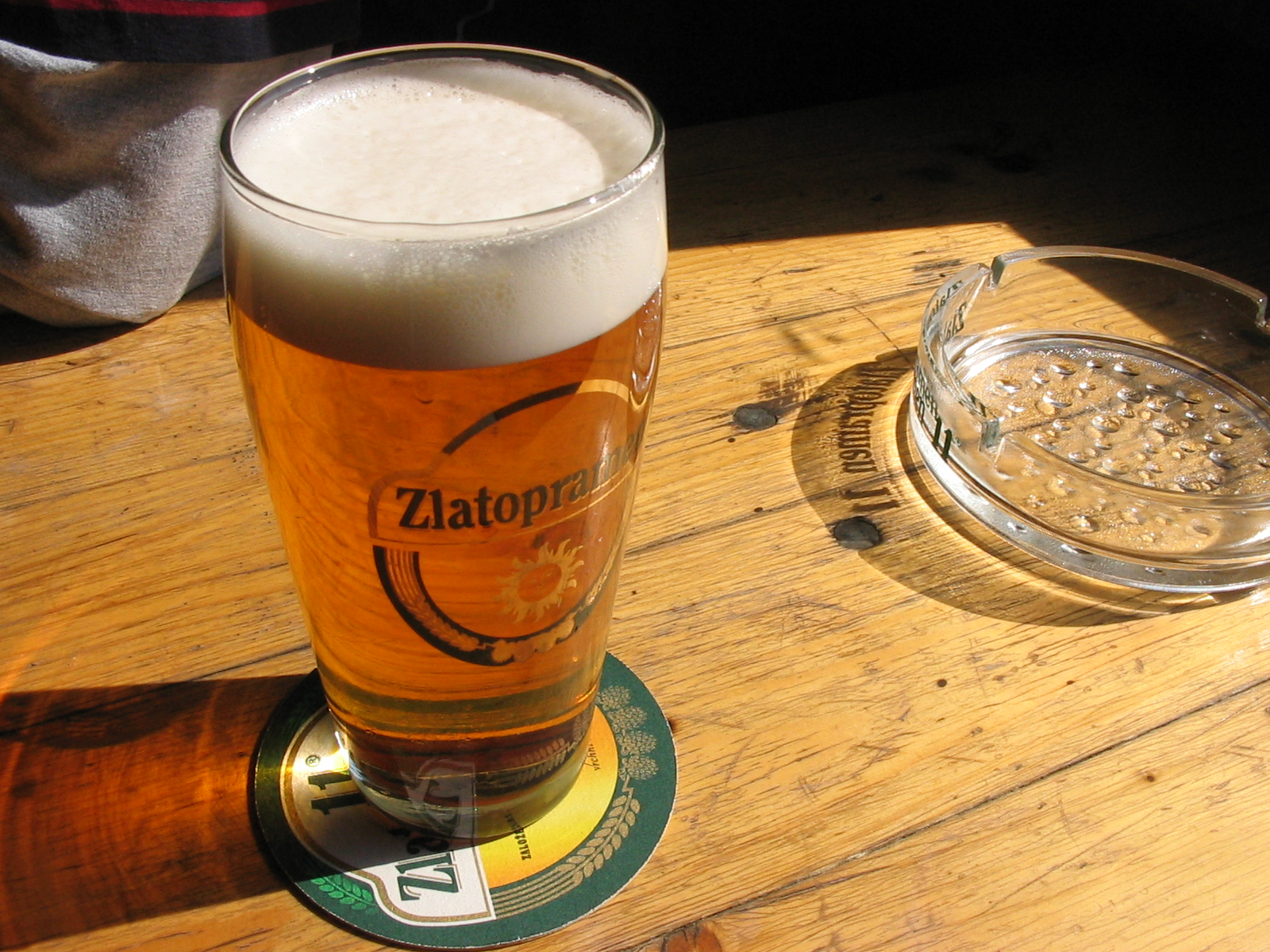 A glass of Zlatopramen beer